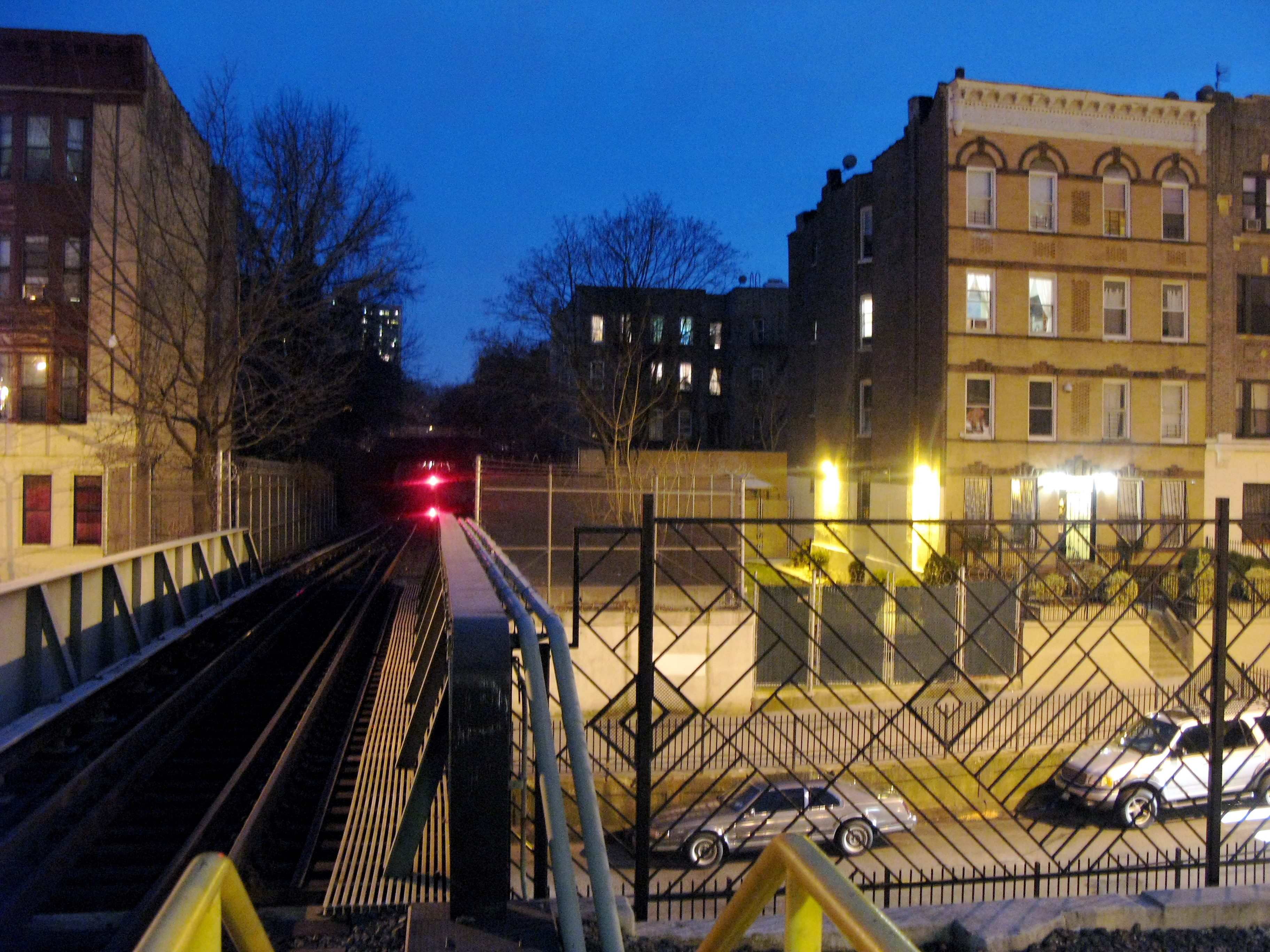 there is something almost terrifying about emerging in brooklyn after weeks on the island. suddenly, empty streets and the rigidity of rectangular boxed shaped houses that seem to defy life itself in their barreness... okay, maybe not all of brooklyn, but damned if this trip out to find housing didn't send me scampering back to the island in a hurry.